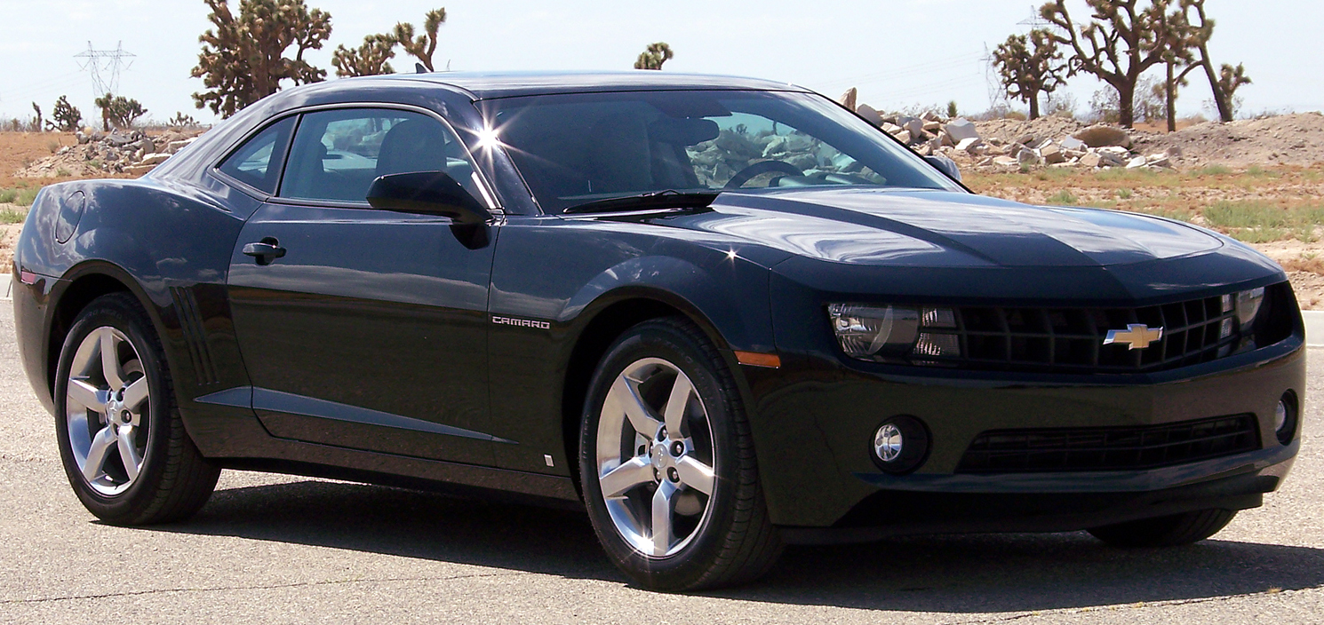 2010 Chevrolet Camaro 1LT photographed in USA.